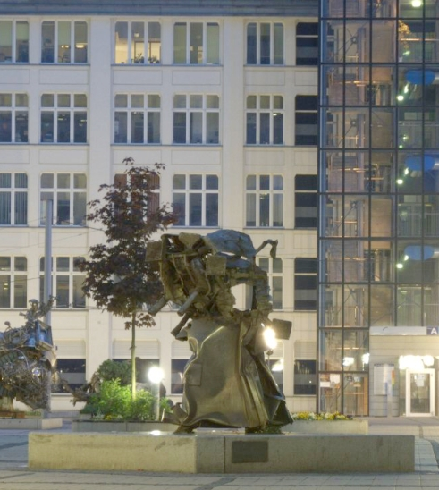 Sculpture Garrison, 1995, premium steel, by Frank Stella, on Ernst-Abbe-Platz in Jena, Thuringia, Germany.